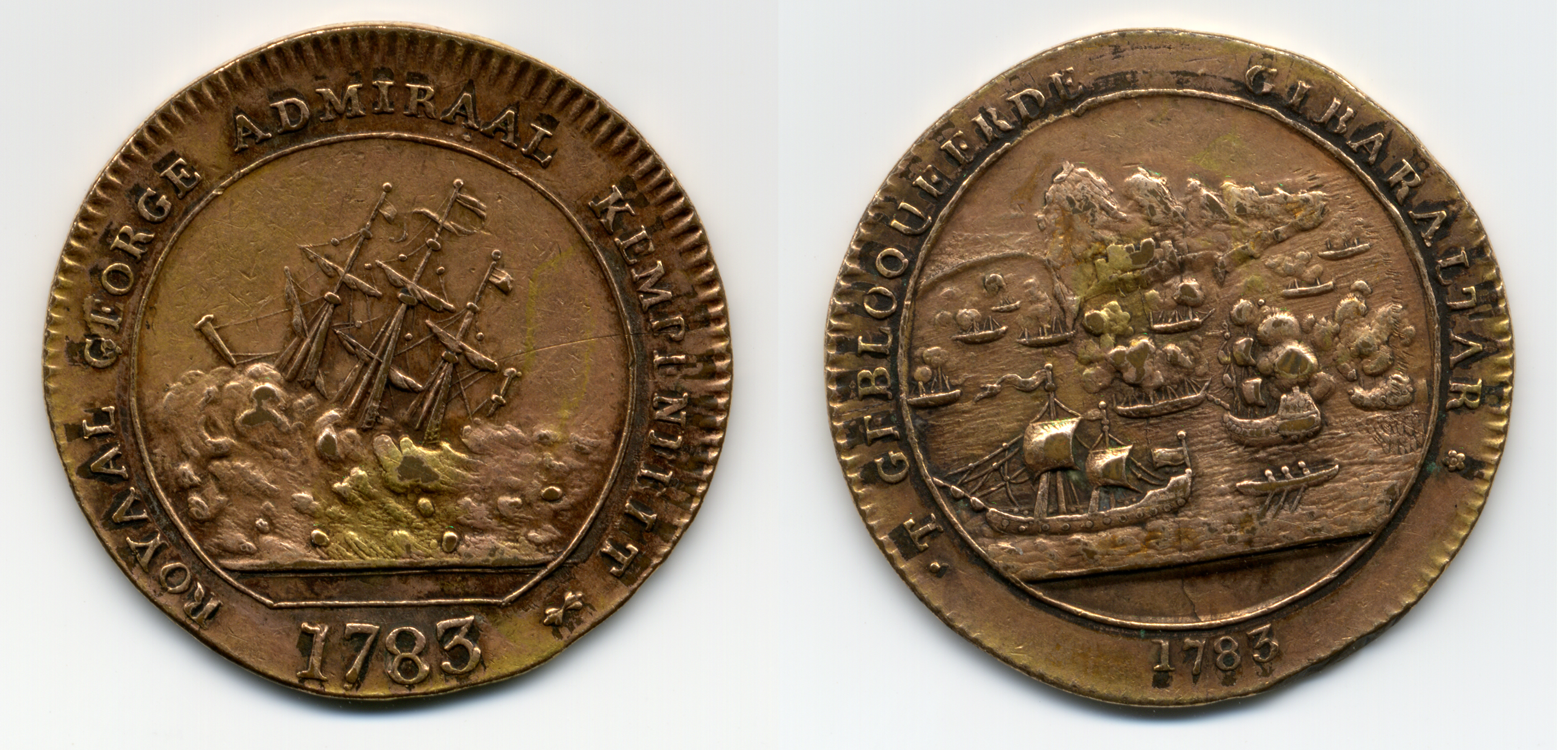 Medallion commemorating the blockade of Gibraltar, 1783 and the loss of the HMS Royal George, 1782. Obverse: View of the Rock of Gibraltar and ships engaged. Legend: T GEBLOQUEERDE GIBARALTAR. Exergue: 1783 (Gibraltar blockade). Reverse: The Royal George sinking. Legend: ROYAAL GEORGE ADMIRAAL KEMPENFELT ('Royal George' Admiral Kempenfelt). Exergue: 1783.